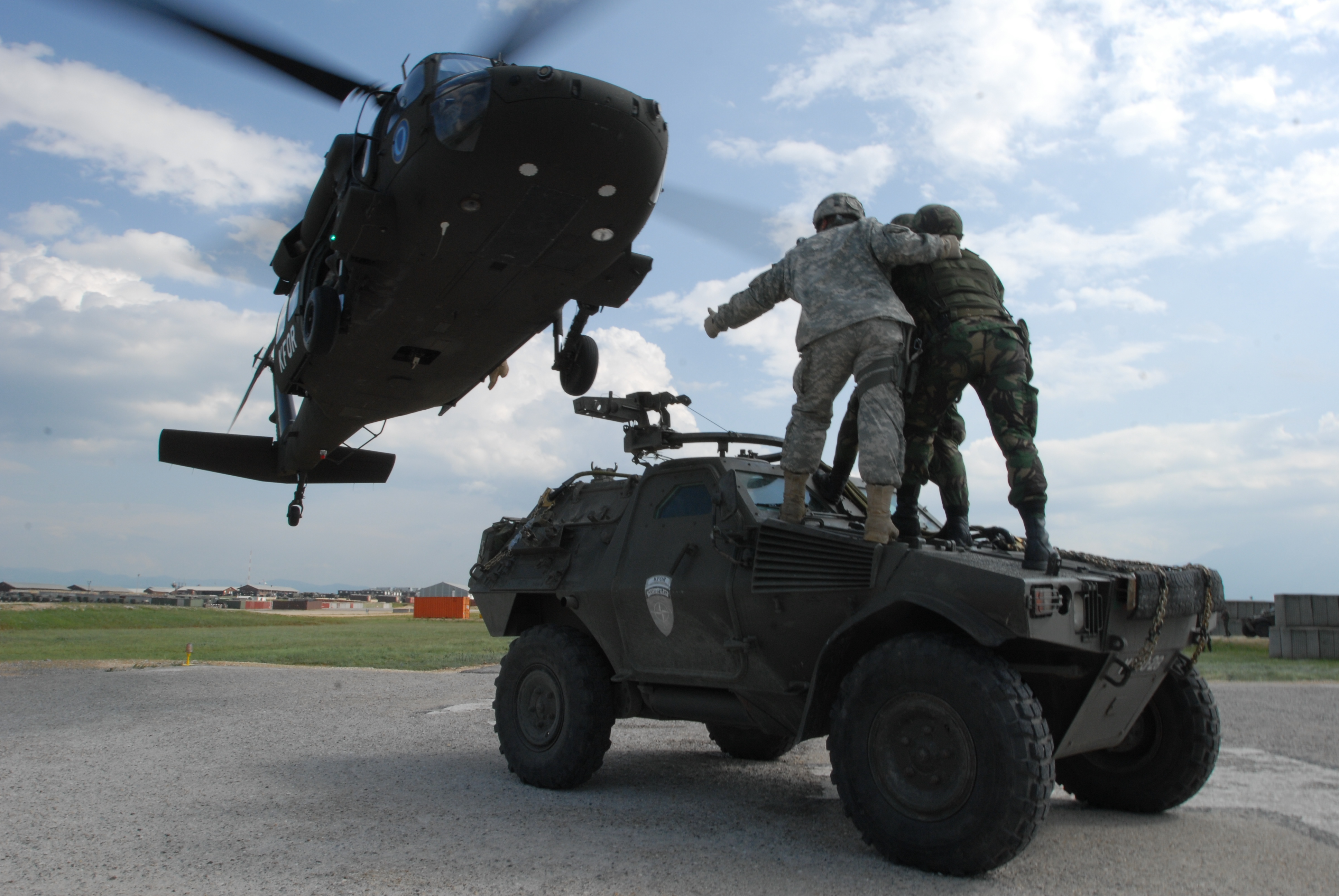 090525-A-4563S-006 Sgt. Brian Lyman with Delta Company, 1-207th Aviation Battalion, Alaska Army National Guard, watches closely as Portuguese soldiers hook their Panhard VBL (Vehicule Blinde Leger) M-11 armored scout car to a UH-60 Blackhawk as part of a sling load.